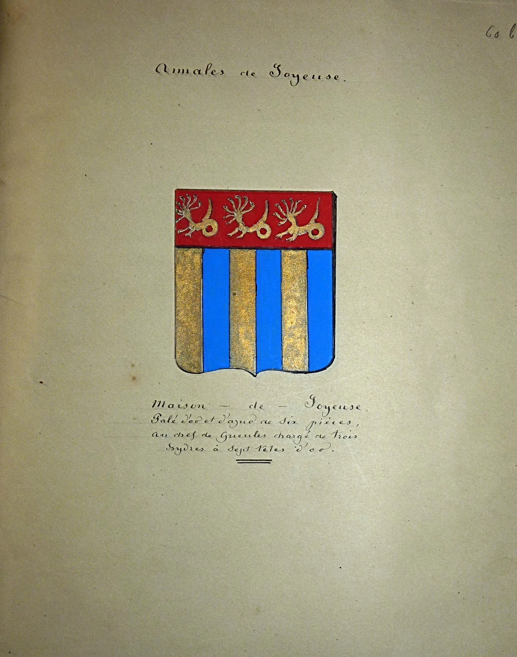 Manuscrit des annales de Joyeuse par le Vicomte L. de Montravel (décédé en 1909).